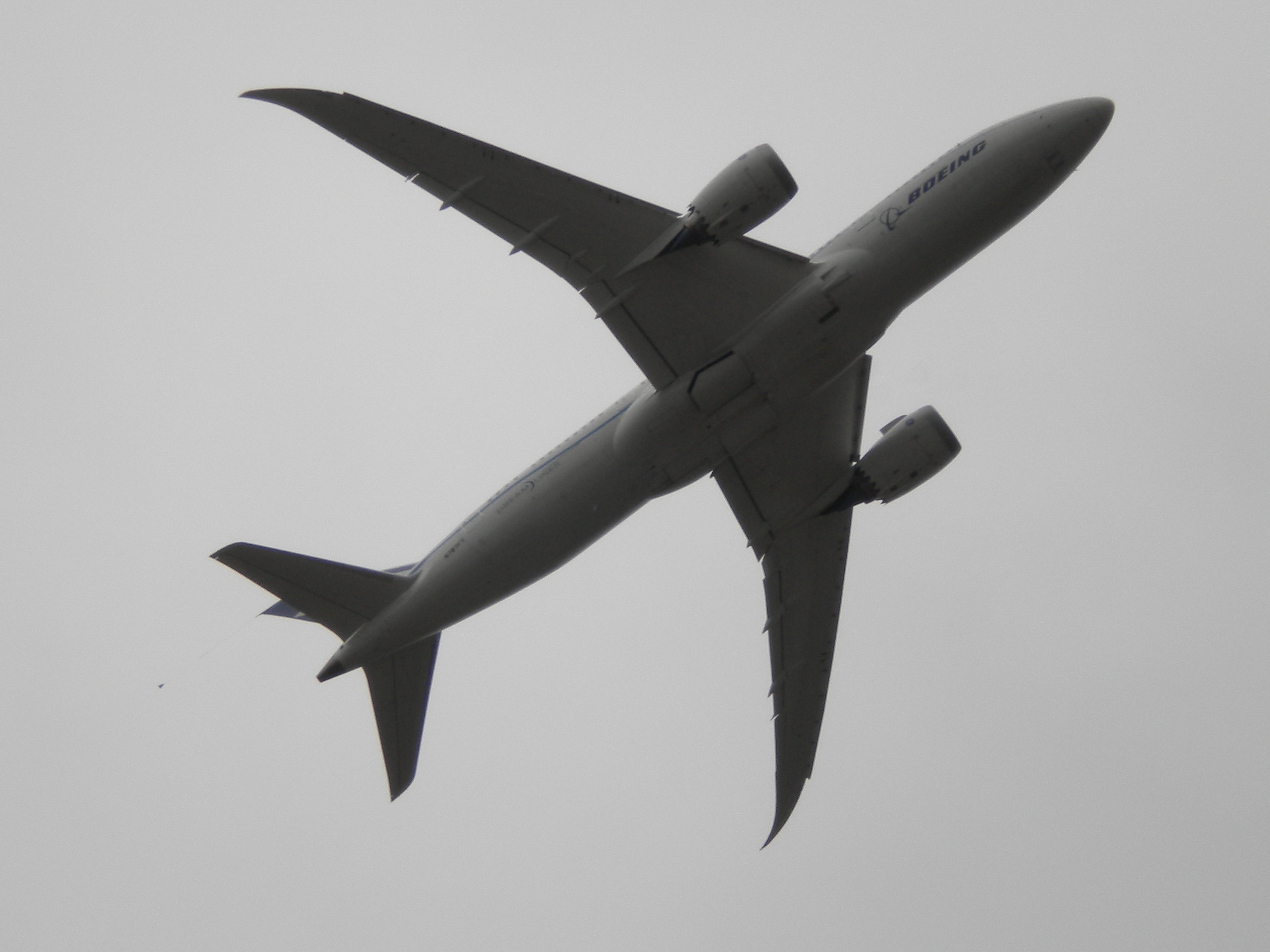 A planform view of a Boeing 787-8 taking off from Boeing Field.